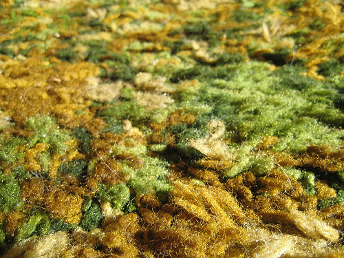 70s flashback! Shag carpet fabric in a cabin